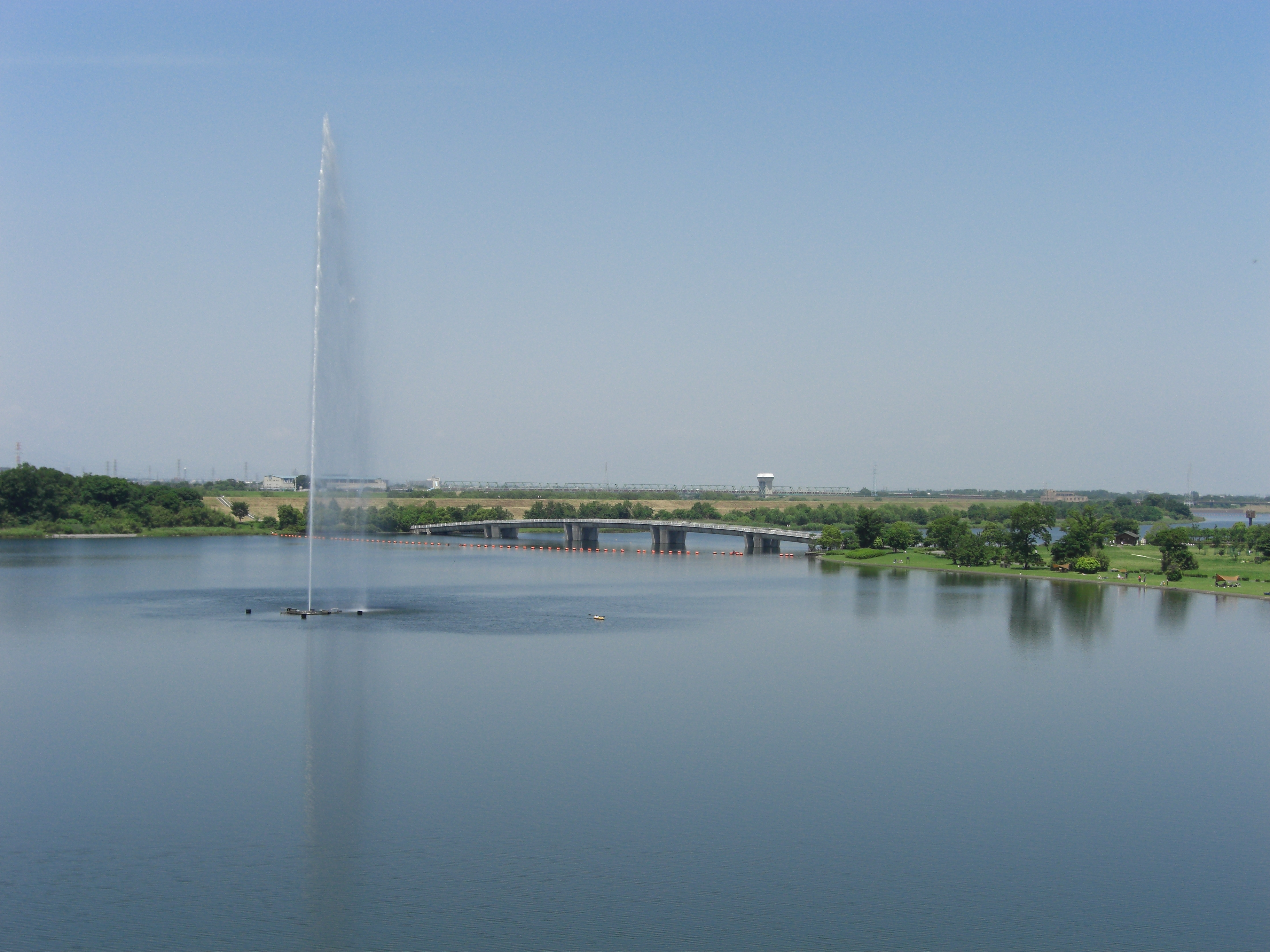 Arakawa Adjustment Pond "Saiko"